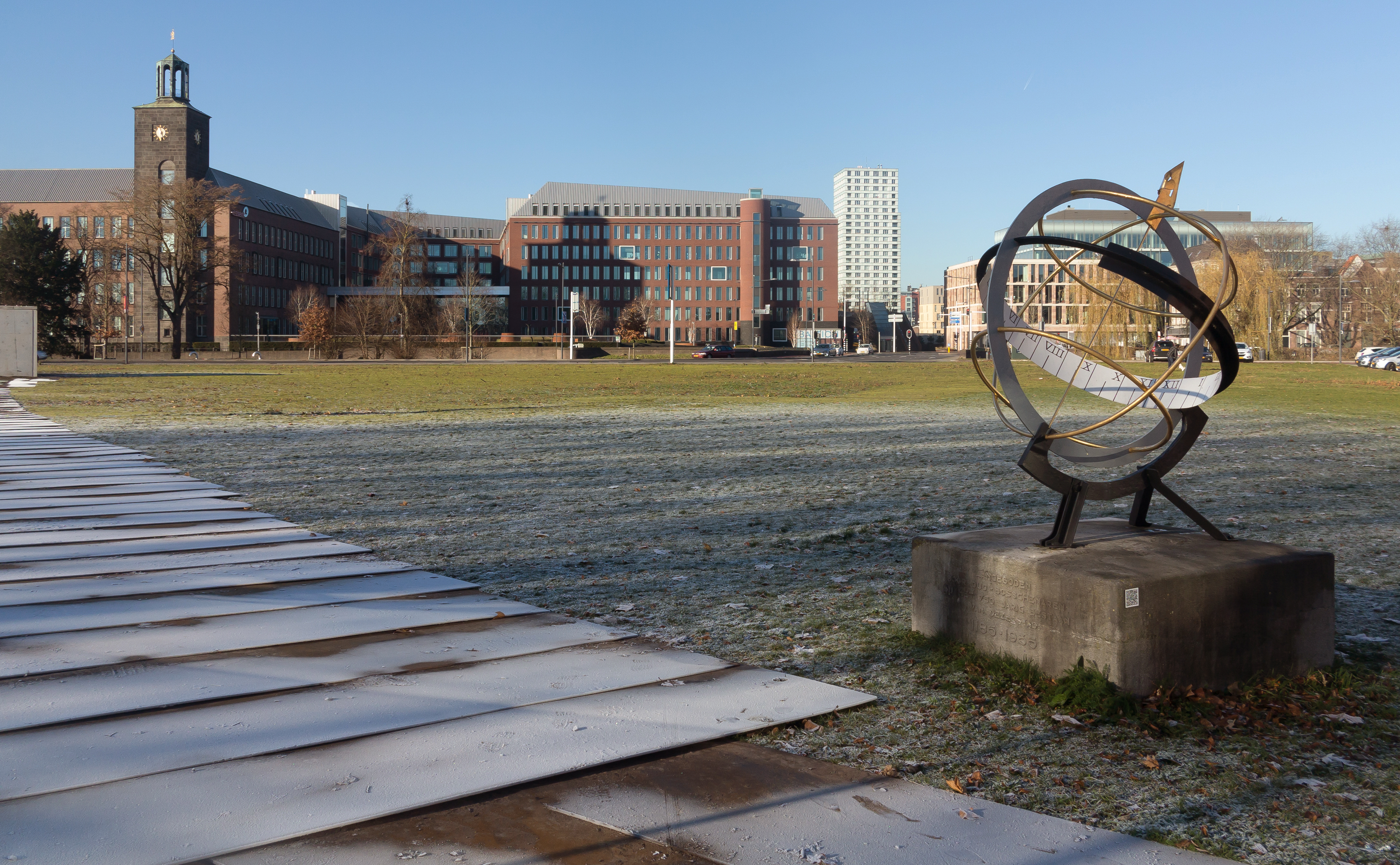 's-Hertogenbosch, street view from het Wilhelminaplein